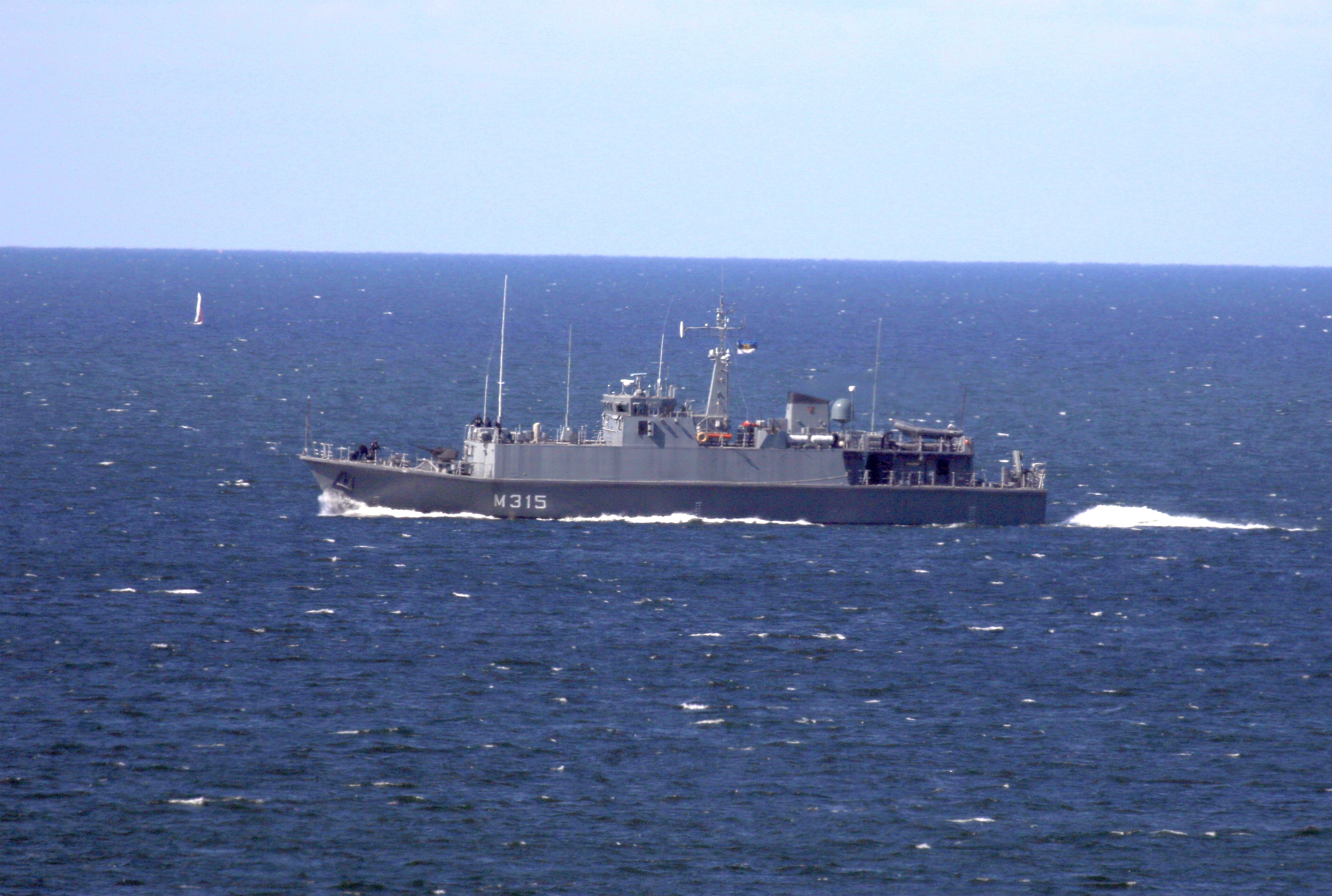 M315 Ugandi of the Estonian Navy, formerly HMS Bridport (M105) - cropped Version